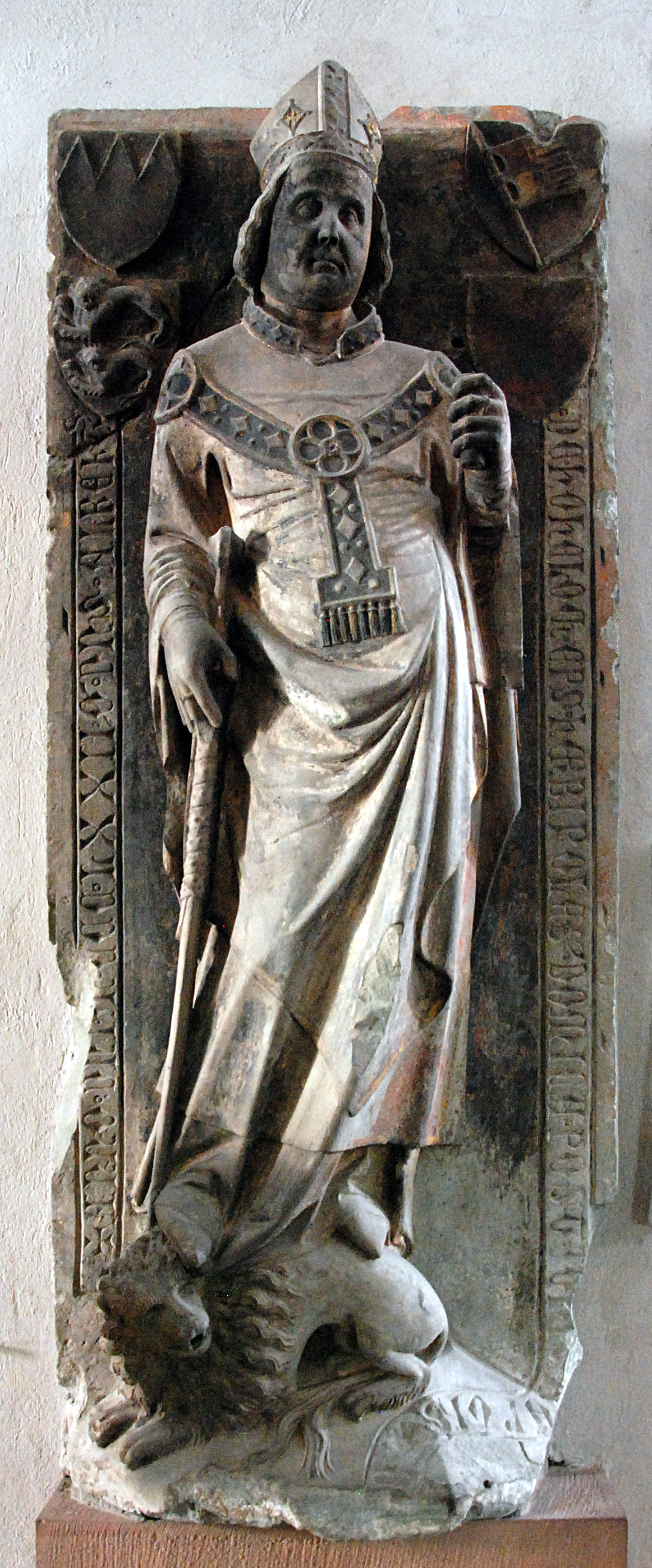 Albrecht II. von Hohenlohe Wurzburg Dom